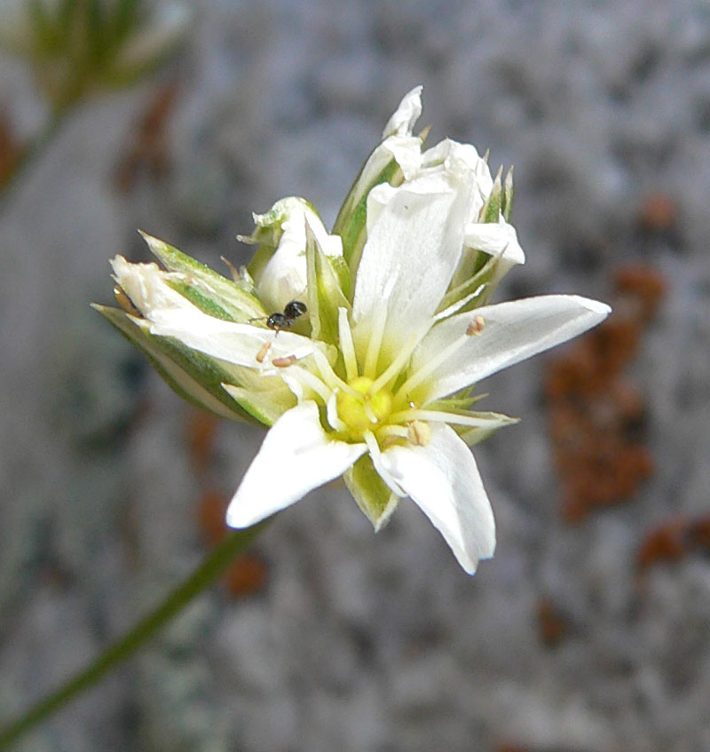 Eremogone congesta var. charlestonensis amongst the quartzite rocks in the mine workings at the end of road 592(?), about 1.5 km NNE of Mount Stirling, Spring Mountains, southern Nevada (elev. about 2100 m); while var. subcongesta is also known from these mountains, var. charlestonensis is suggested by the compactness of the inflorescence and the spinose sepals